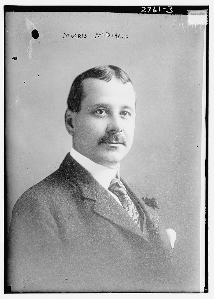 Morris McDonald, American railroad executive. (No date recorded on caption card.) 1 negative : glass ; 5 x 7 in. or smaller. Notes: Title from unverified data provided by the Bain News Service on the negatives or caption cards. Forms part of: George Grantham Bain Collection (Library of Congress). Format: Glass negatives. Repository: Library of Congress, Prints and Photographs Division, Washington, D.C. 20540 USA, General information about the Bain Collection is available at Persistent URL: Call Number: LC-B2- 2761-3